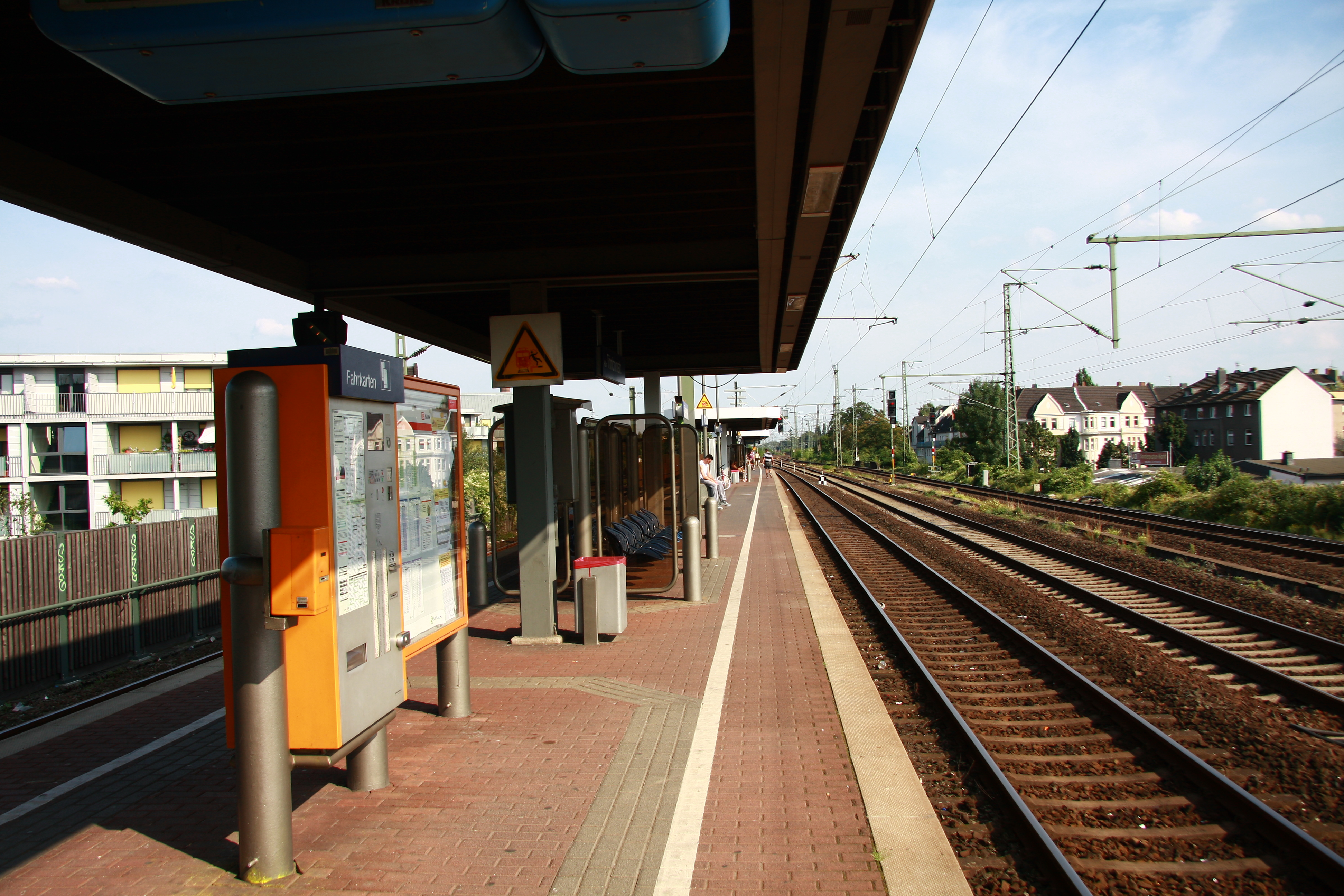 The trainstation Köln-Trimbornstraße of the Rhein-Ruhr S-Bahn in Köln-Kalk